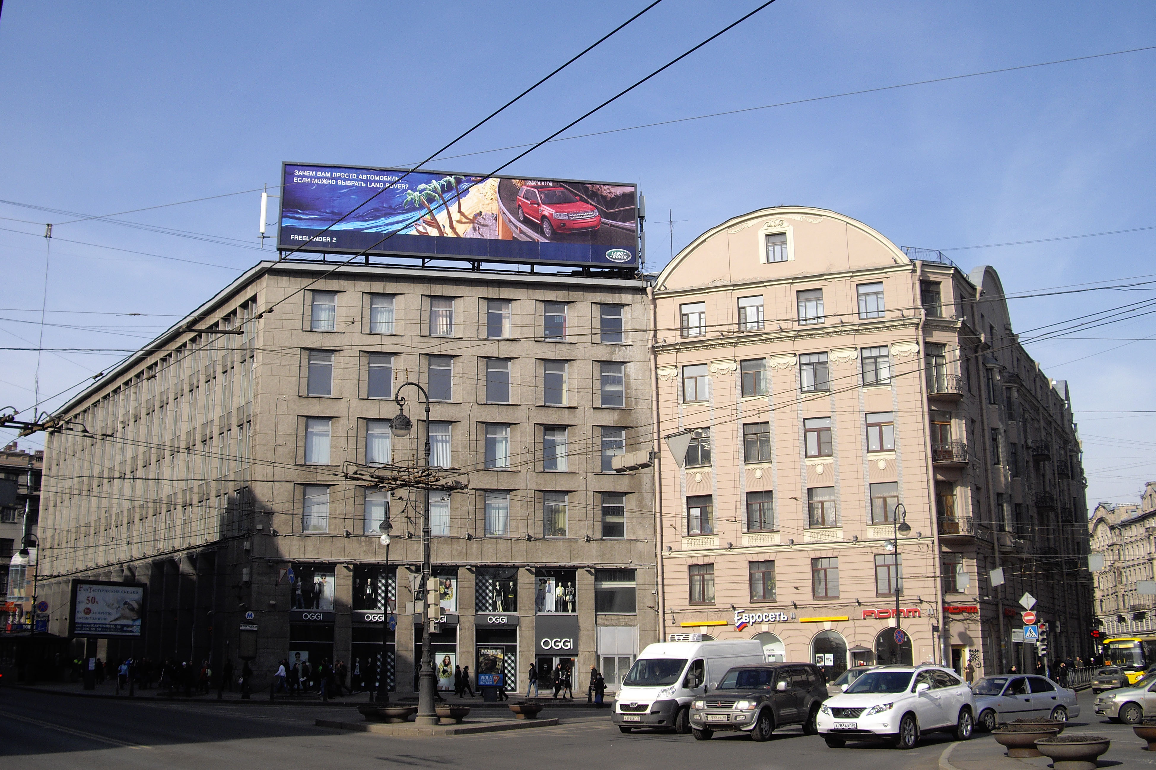 37, Kamennoostrovsky Prospekt (architect Eugene Levinson) and 98, Bolshoy Prospekt (Petrograd Side) (architect Dmitry Kryzhanovskii) in Saint Petersburg